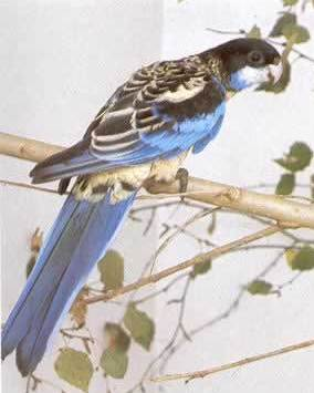 Northern Rosella also known as Brown's Parakeet or Smutty Rosella.